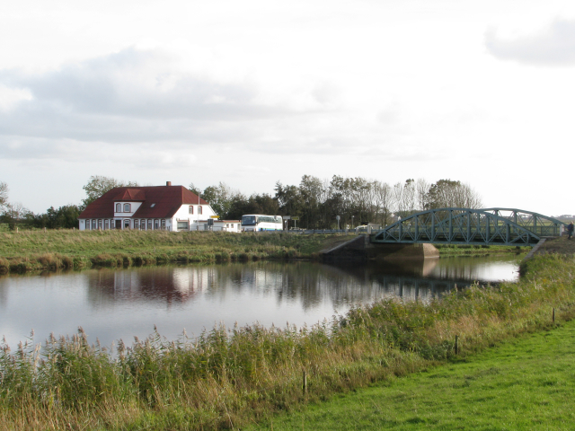 Bridge crossing Bongsieler Kanal near Ockholm at Munksbrück